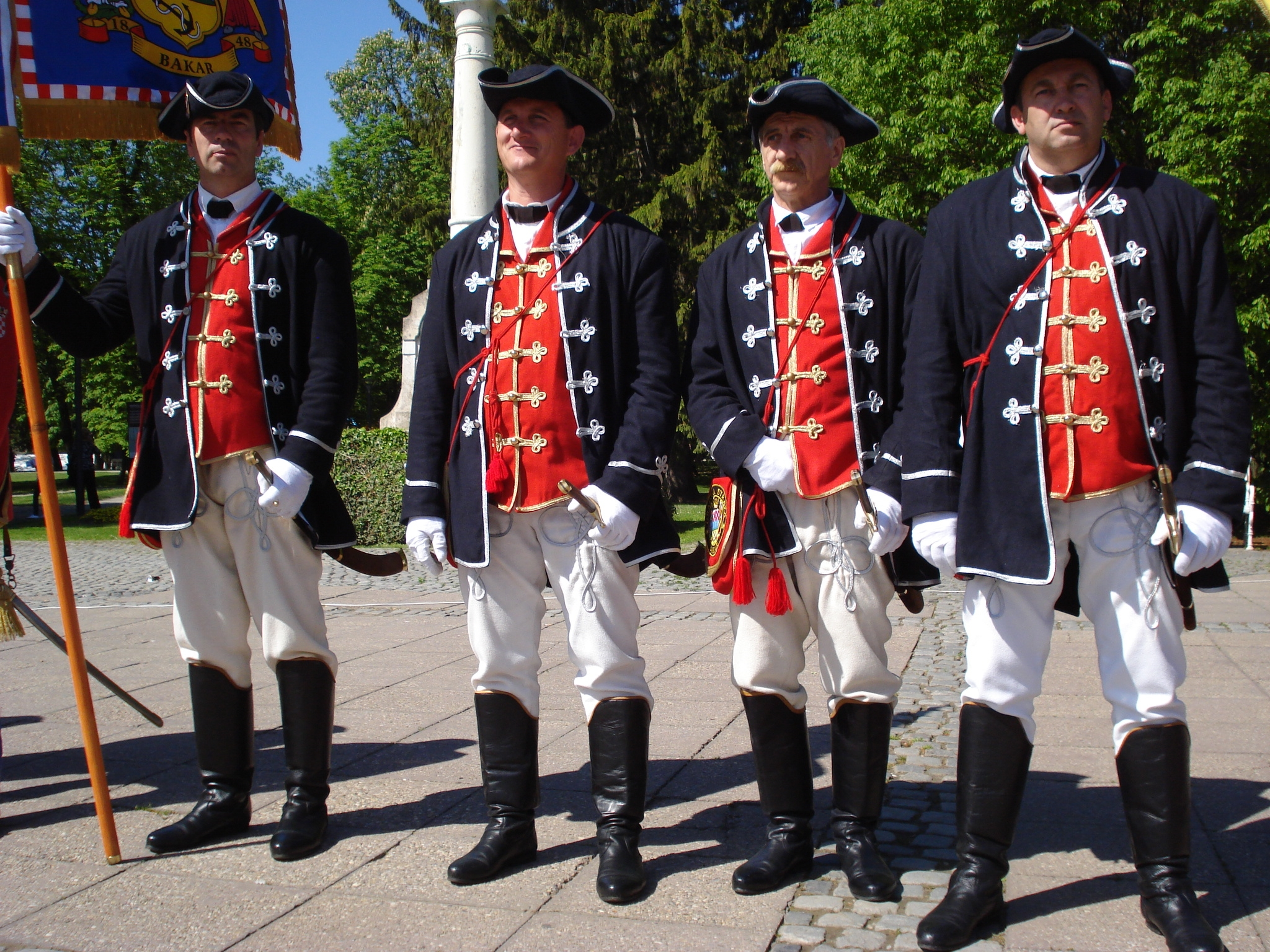 "Bakar Town Guard", a historical military unit from the Town of Bakar, Croatia, during The Medjimurje County Day celebration (30th April 2011) in Čakovec